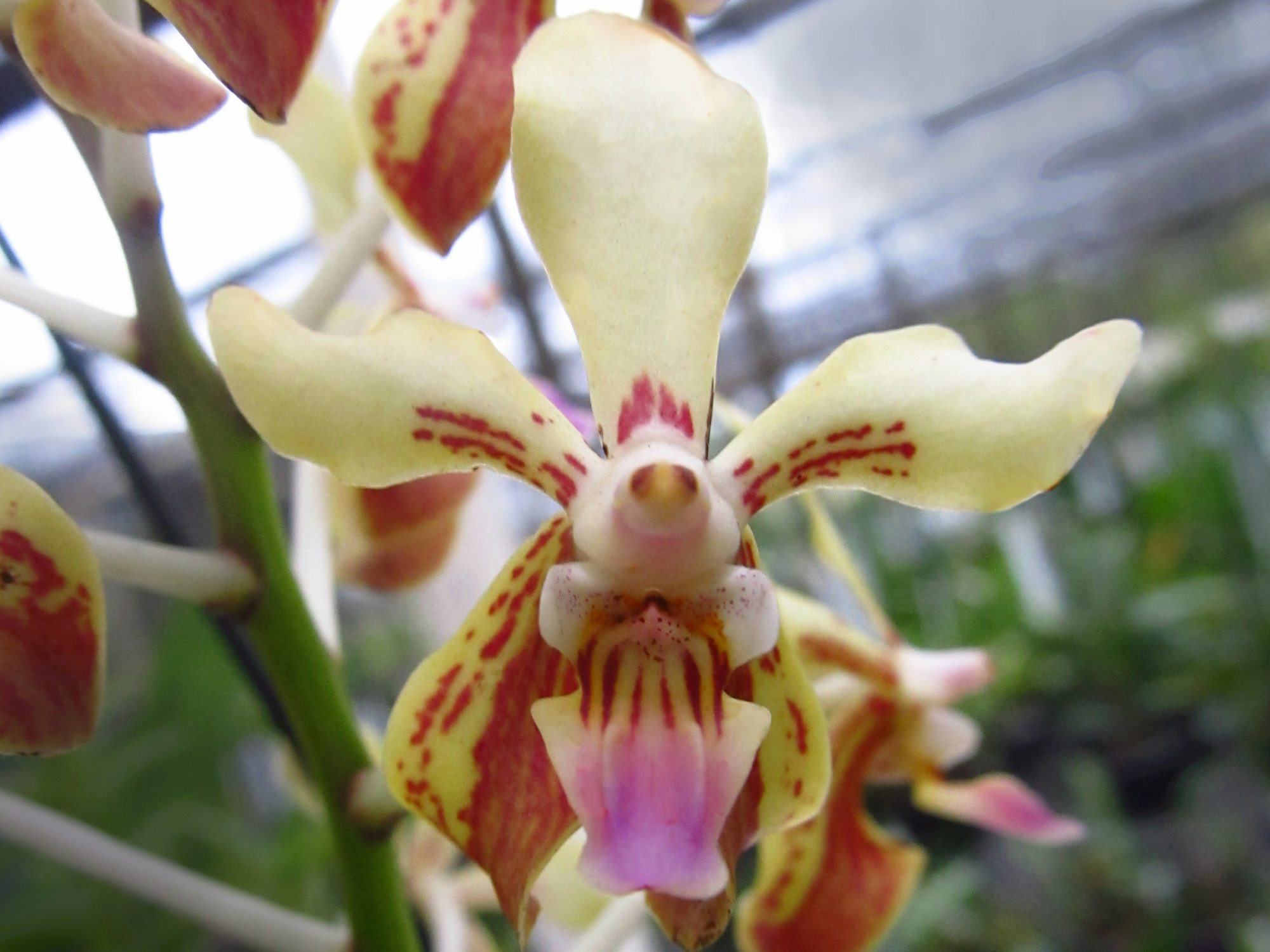 Photo taken By Christian Demetrio & Dalton Holland Baptista, 26/Sept/2012